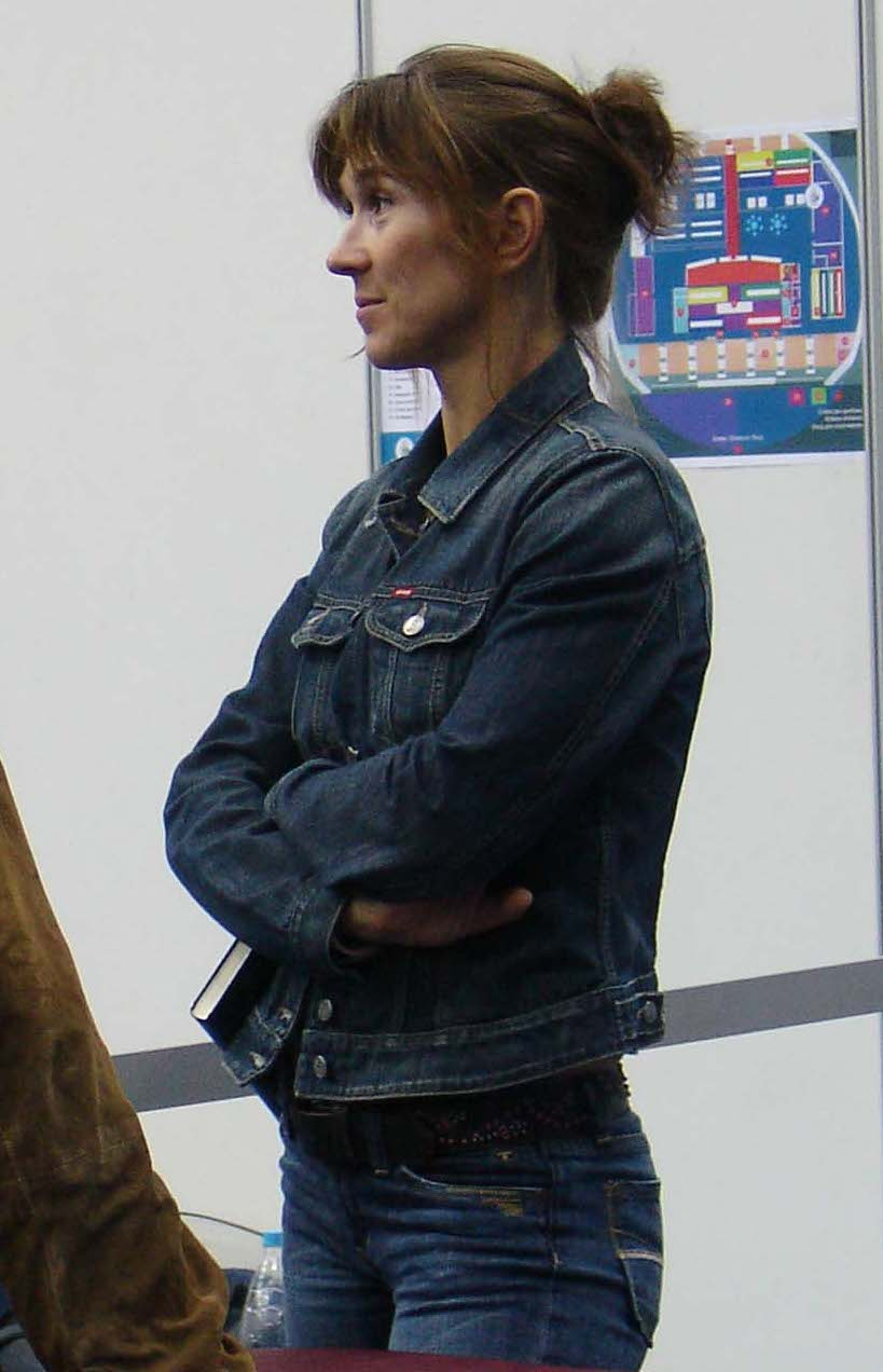 Hungarian epeé fencer Tímea Nagy, World Championships. St. Petersburg 2007